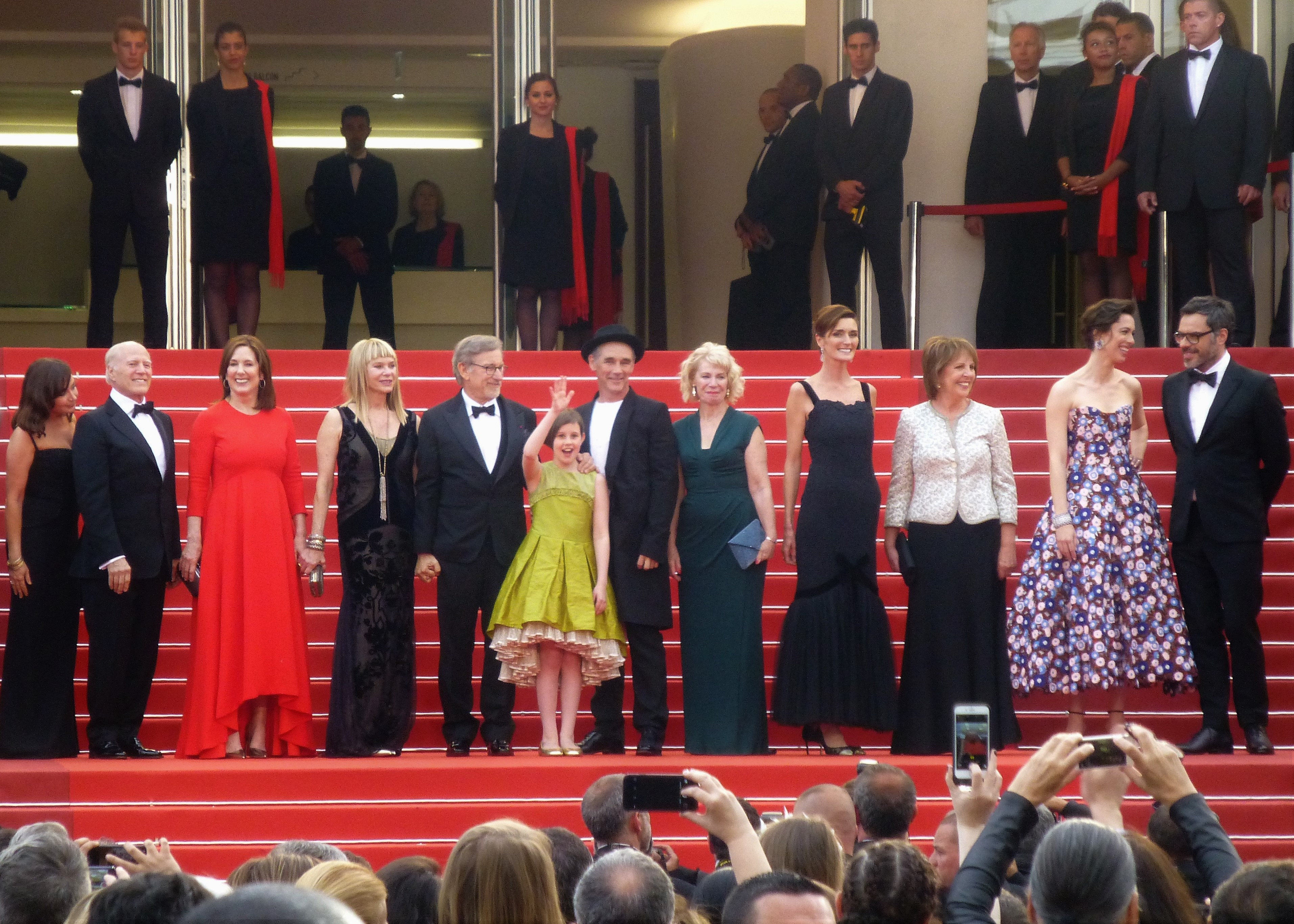 Kristie Macosko, Frank Marshall, Kathleen Kennedy, Kate Capshaw, Steven Spielberg, Ruby Barnhill, Mark Rylance, Claire van Kampen, Lucy Dahl, Penelope Wilton, Rebecca Hall and Jemaine Clement at the world premiere of The BFG, 2016 Cannes Film Festival